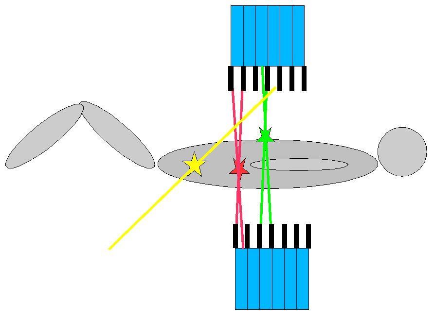 2D acquisition mode with septae